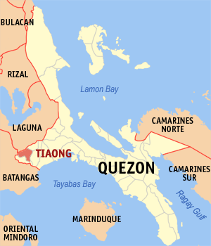 Map of Quezon showing the location of Tiaong